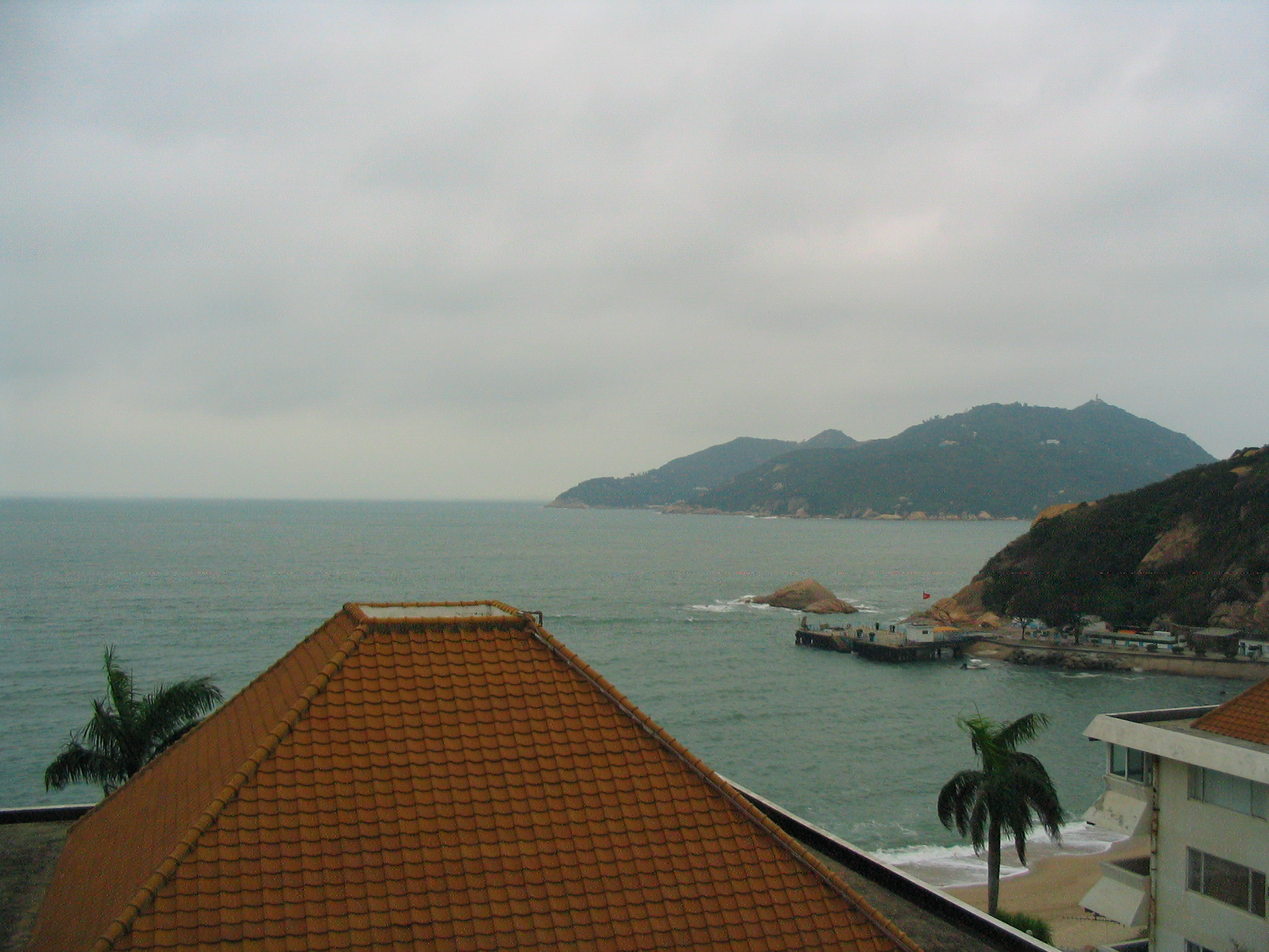 Taken by user user:Ngchikit on 17 March 2007.